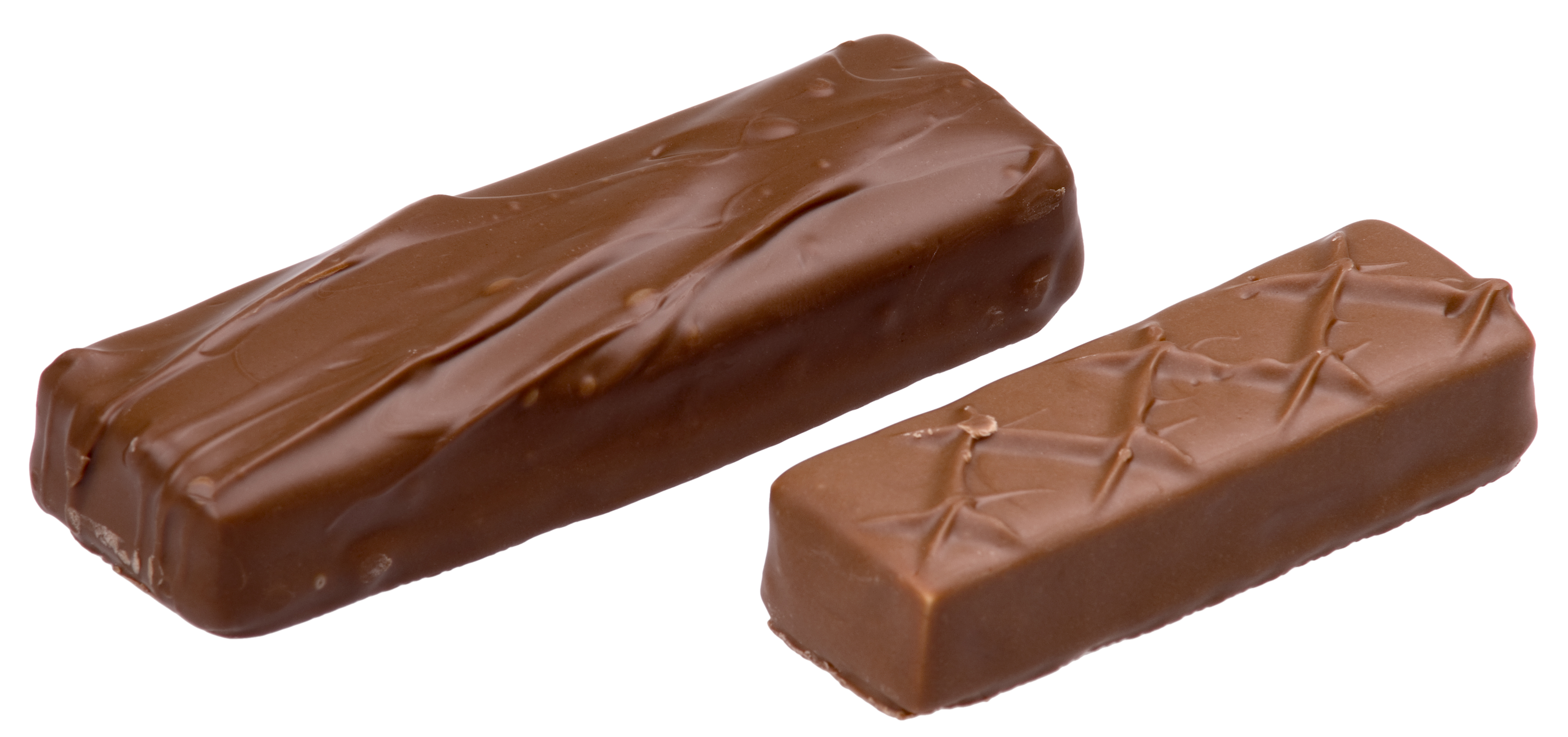 An American (left) and a British (right) Milky Way candy bar. Note the difference in size, color and patterning.